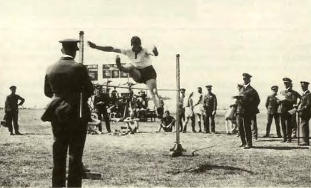 V.E. Hancock, a later RAAF Chief of the Air Staff, competes in the high jump during an inter-station and inter-unit sports meeting during the early 1930s.